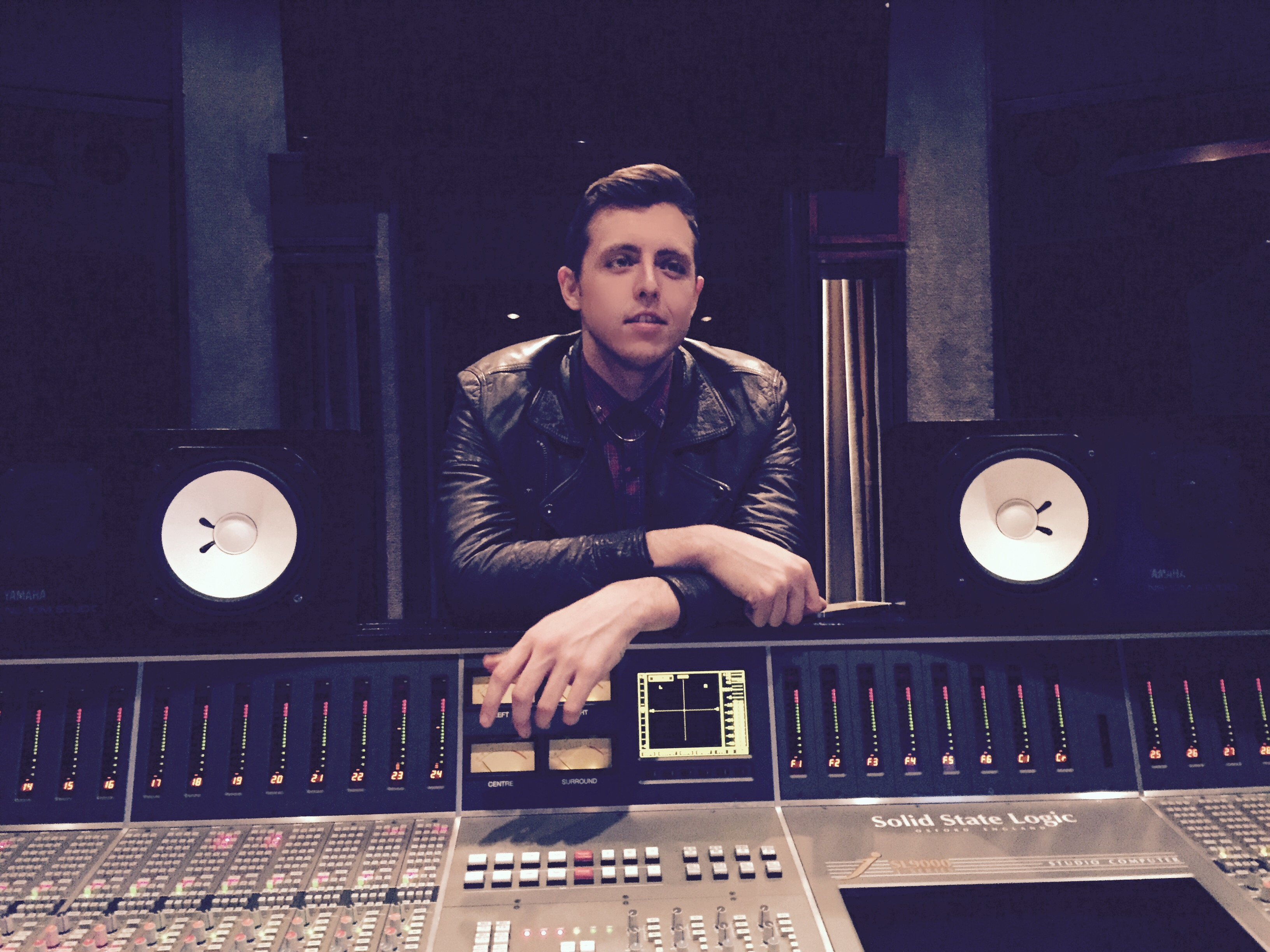 J Hart in the studio